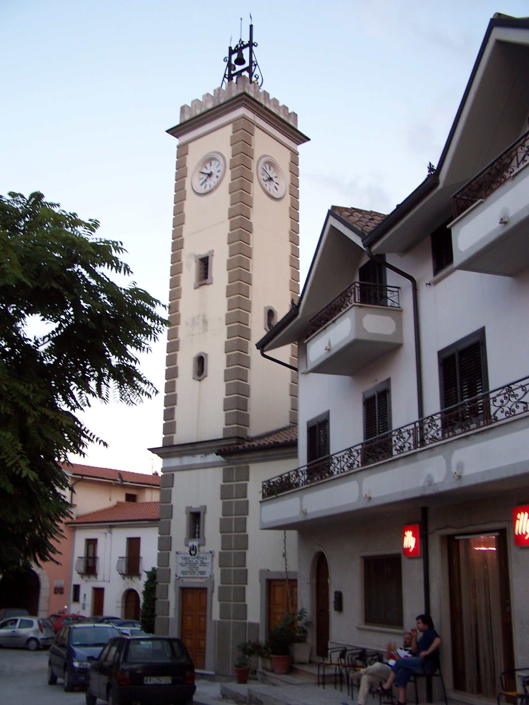 This is the bell-tower of Saint Rocco church in Villamaina (AV) - Italy. Author: Roberto Petruzzo - 2005